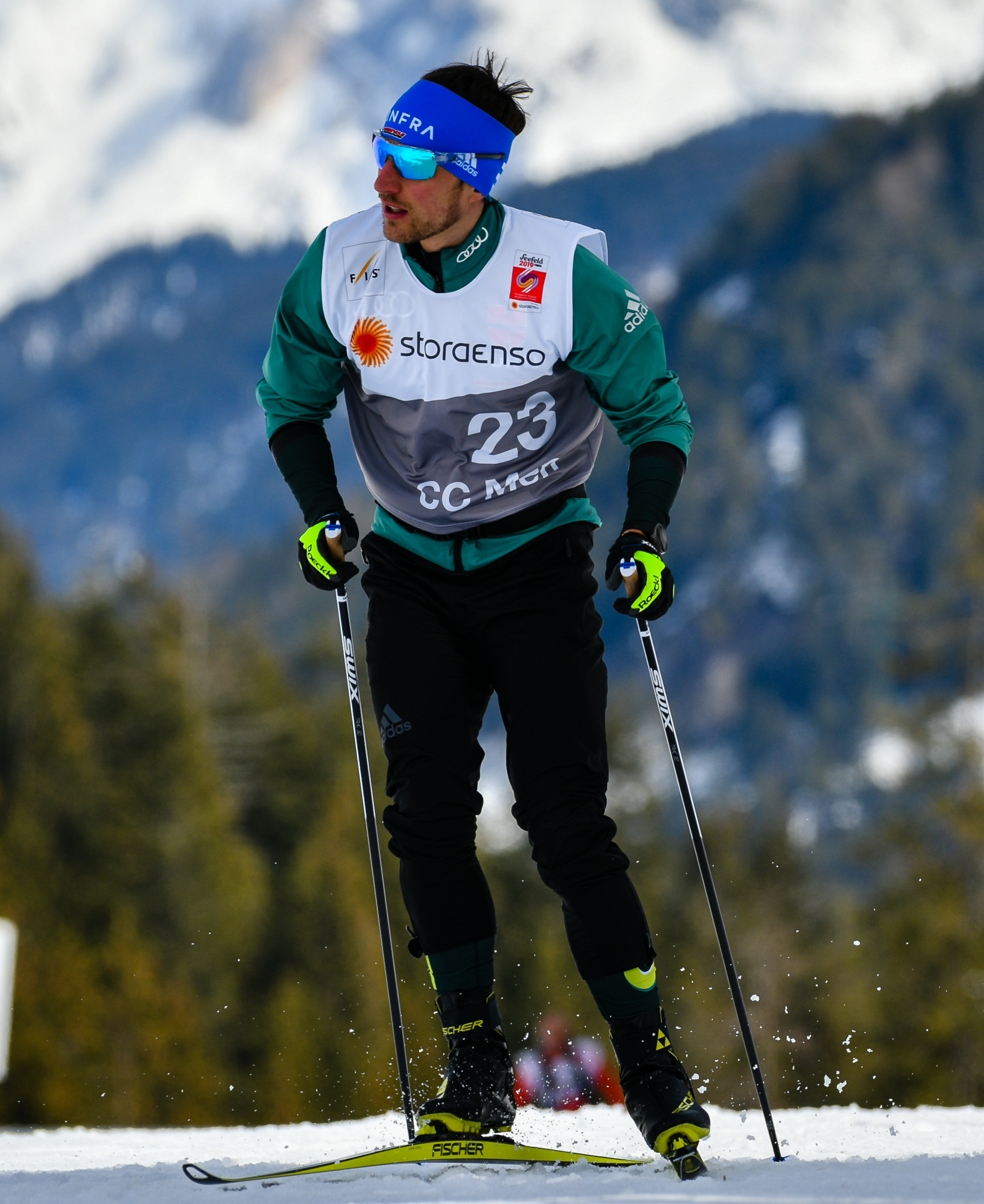 FIS Nordic Wolrd Ski Championships Seefeld 2019 - Men Cross Country 50km Mass Start Free. Picture shows Jonas Dobler (GER).